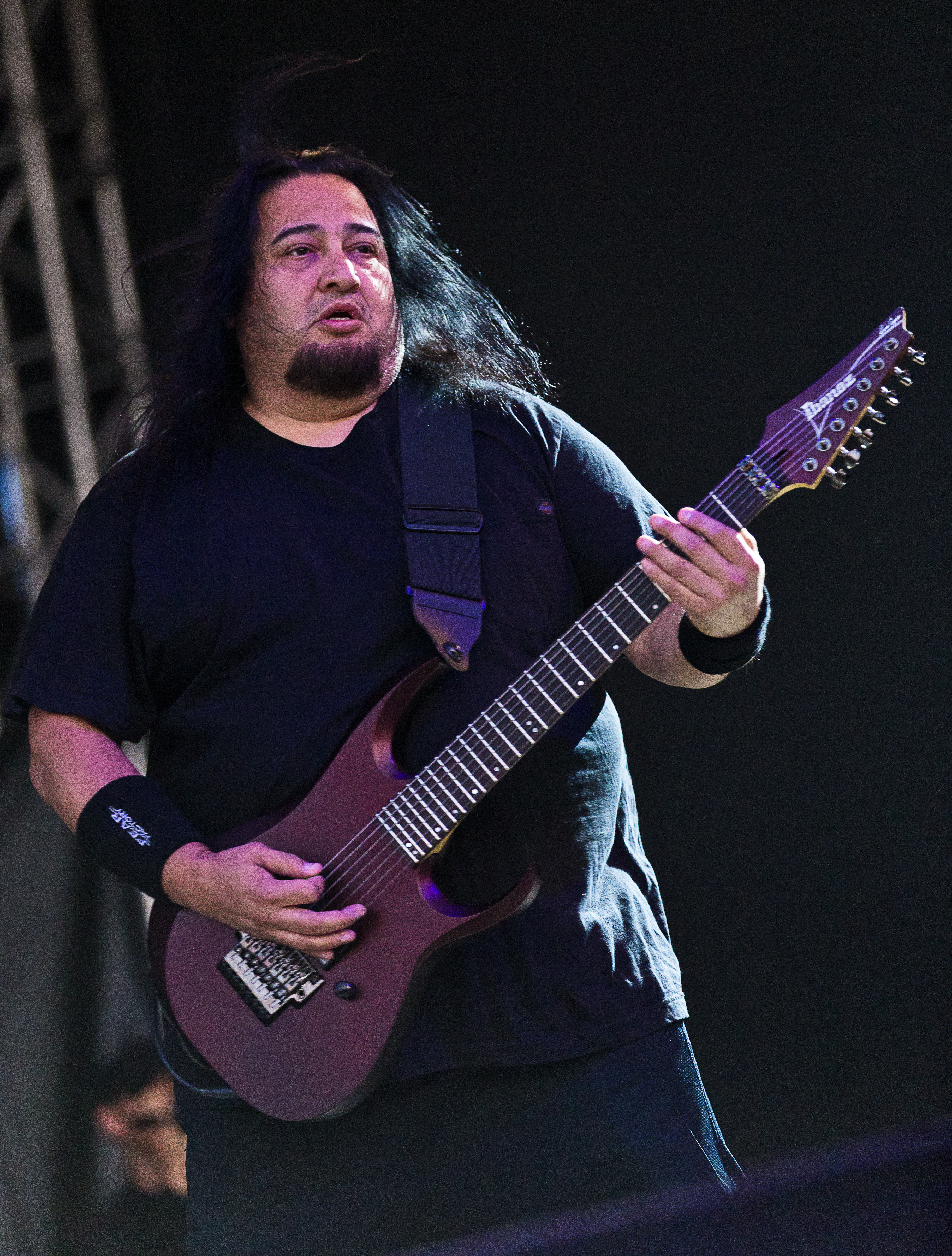 The American death metal band Fear Factory at the Rockharz Open Air 2015 in Ballenstedt/Germany.